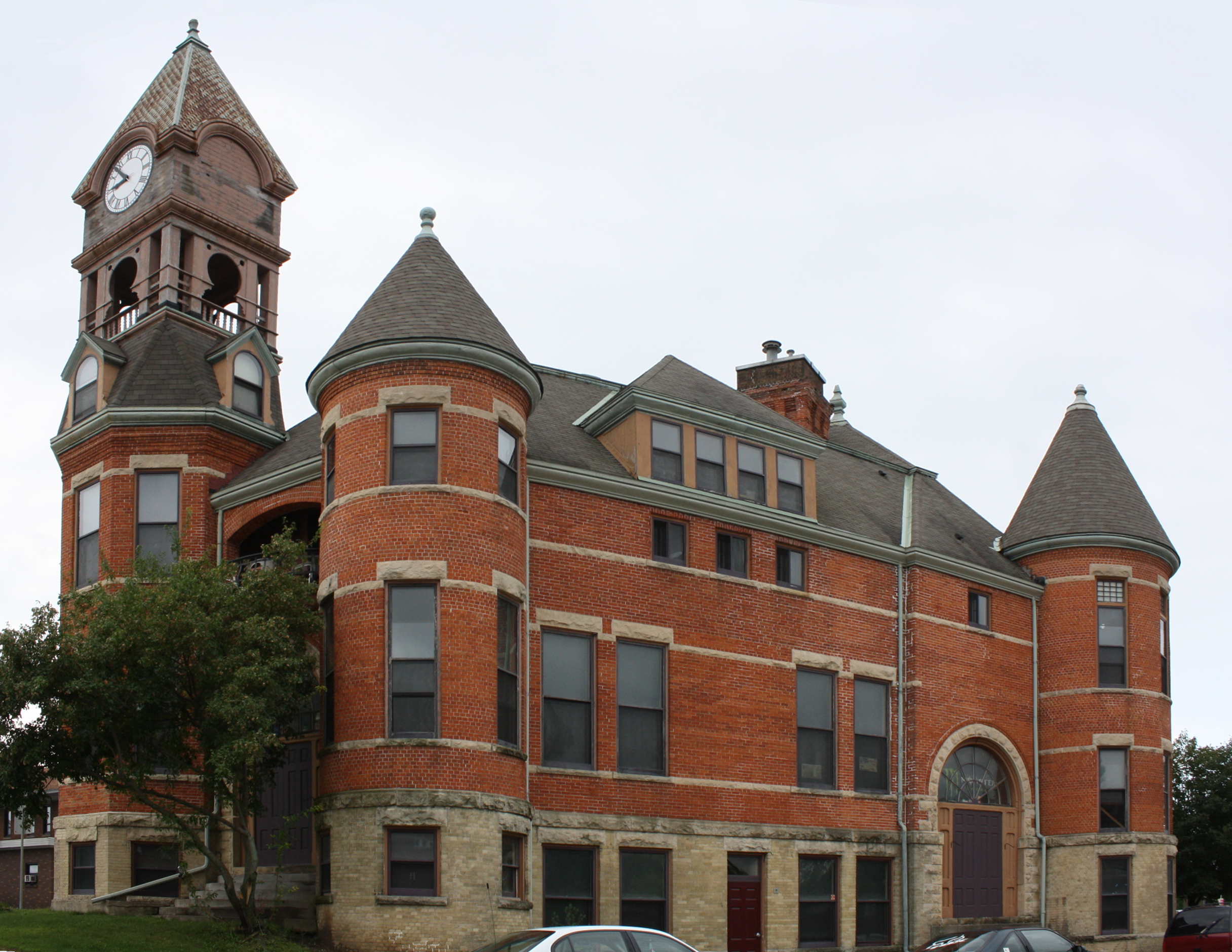 The historic (former) Merill City Hall in Merrill, Wisconsin. It is listed on the National Register of Historic Places.